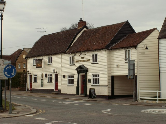 'The Maltsters Arms' public house This pub is 18th century and it has recently had a facelift.